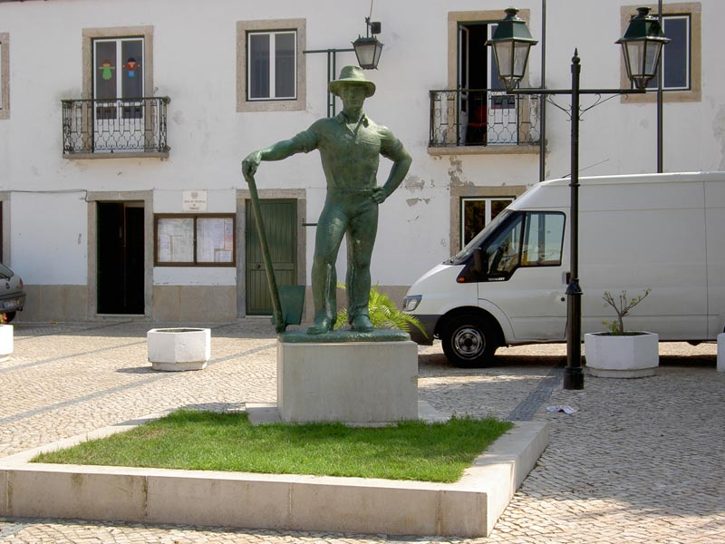 Monument "Cavador" in Samouco